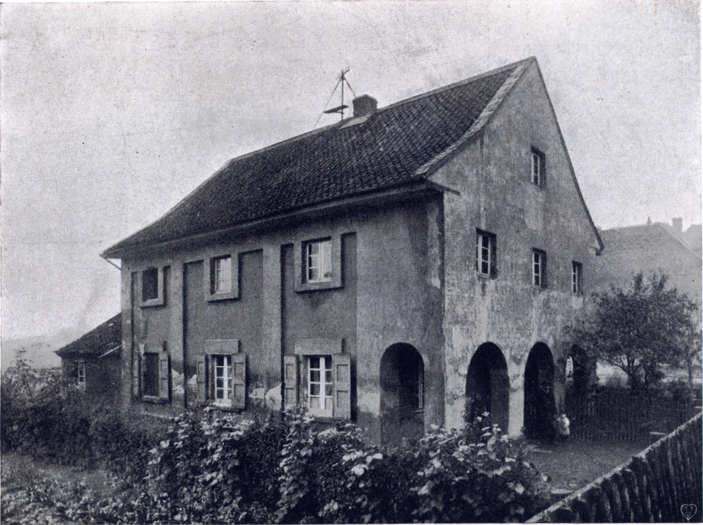 t